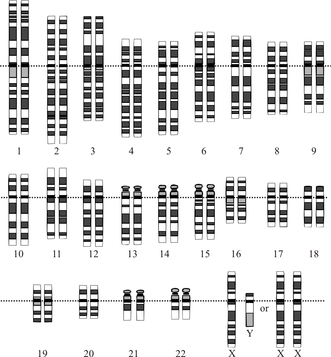 Karyotype